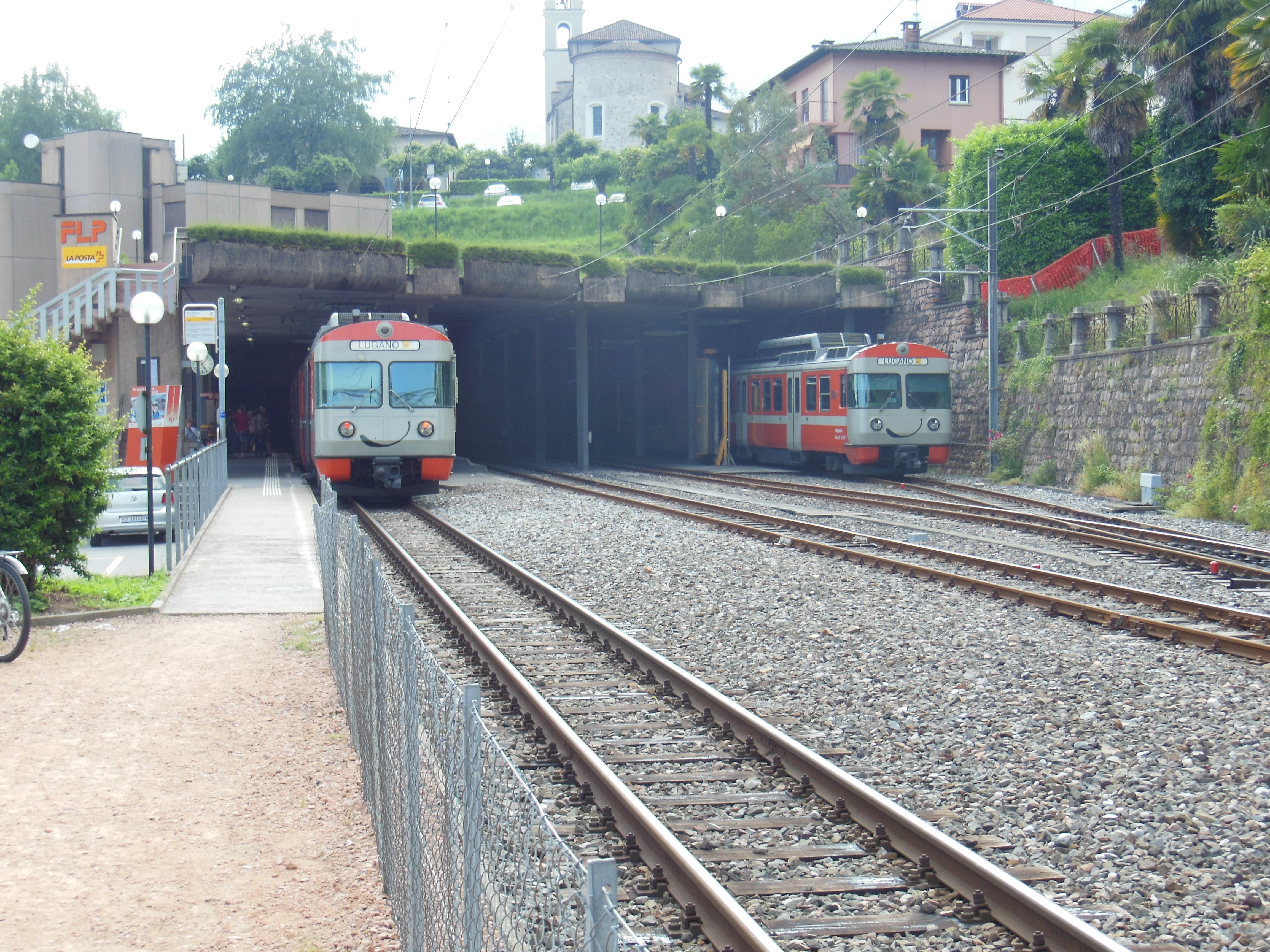 Ponte Tresa railway station seen from the station throat.